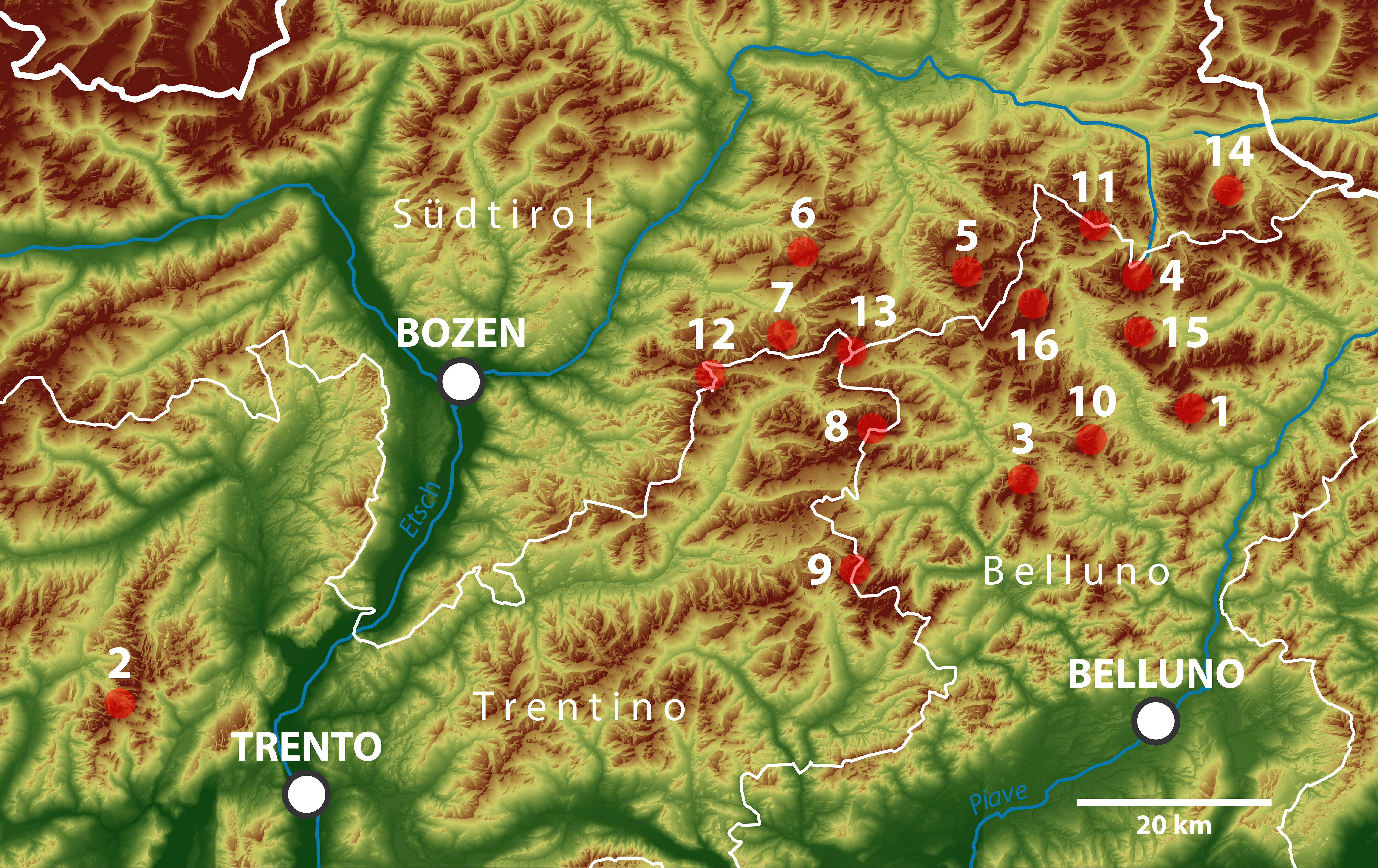 Massifs of the Dolomites with three-thousanders